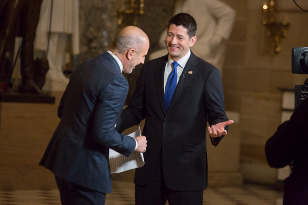 The TODAY Show – Matt Lauer kicked off The TODAY Show live from the Capitol and spoke with Speaker Ryan about the issues of the day.